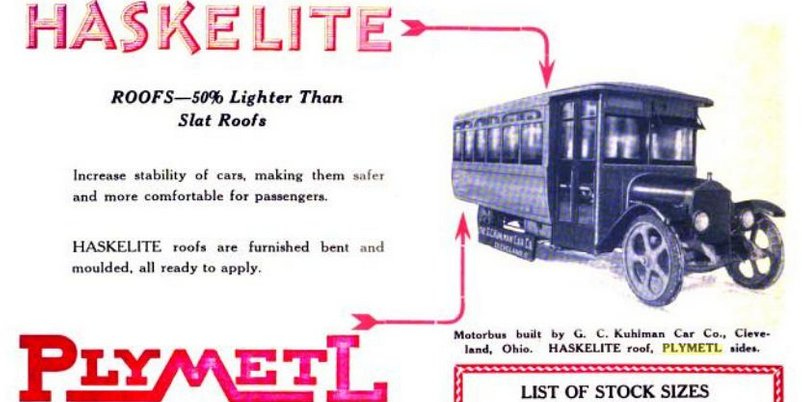 Haskelite advertisement for PlyMetl plywood